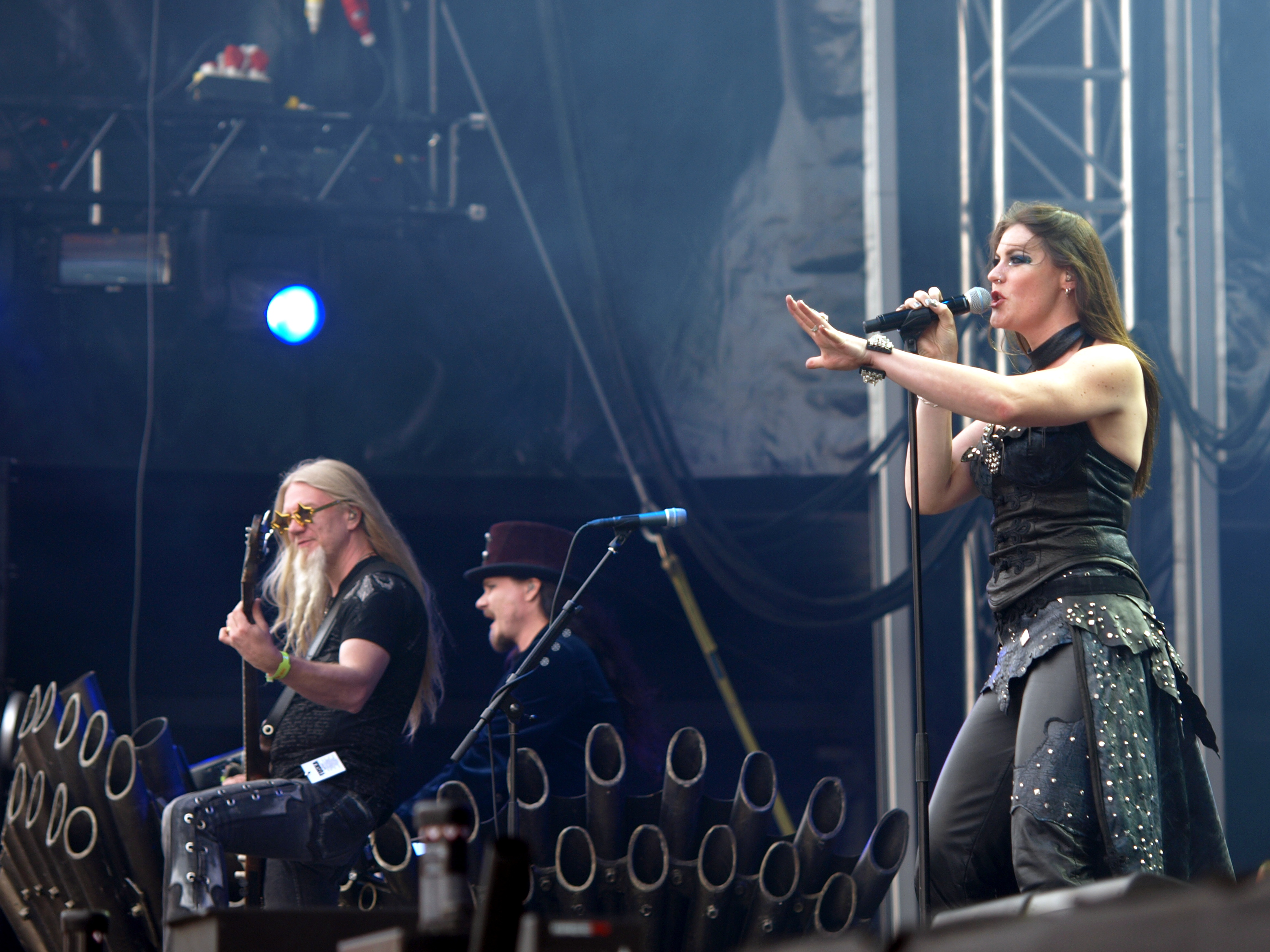 Finnish band Nightwish at Tuska Open Air 2013